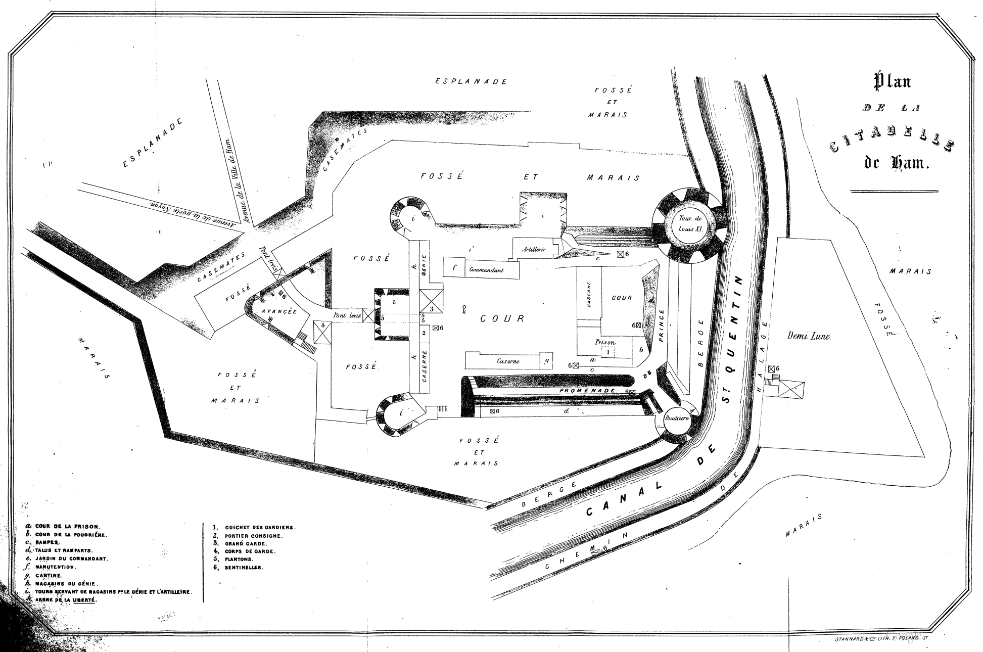 Chateau de Ham